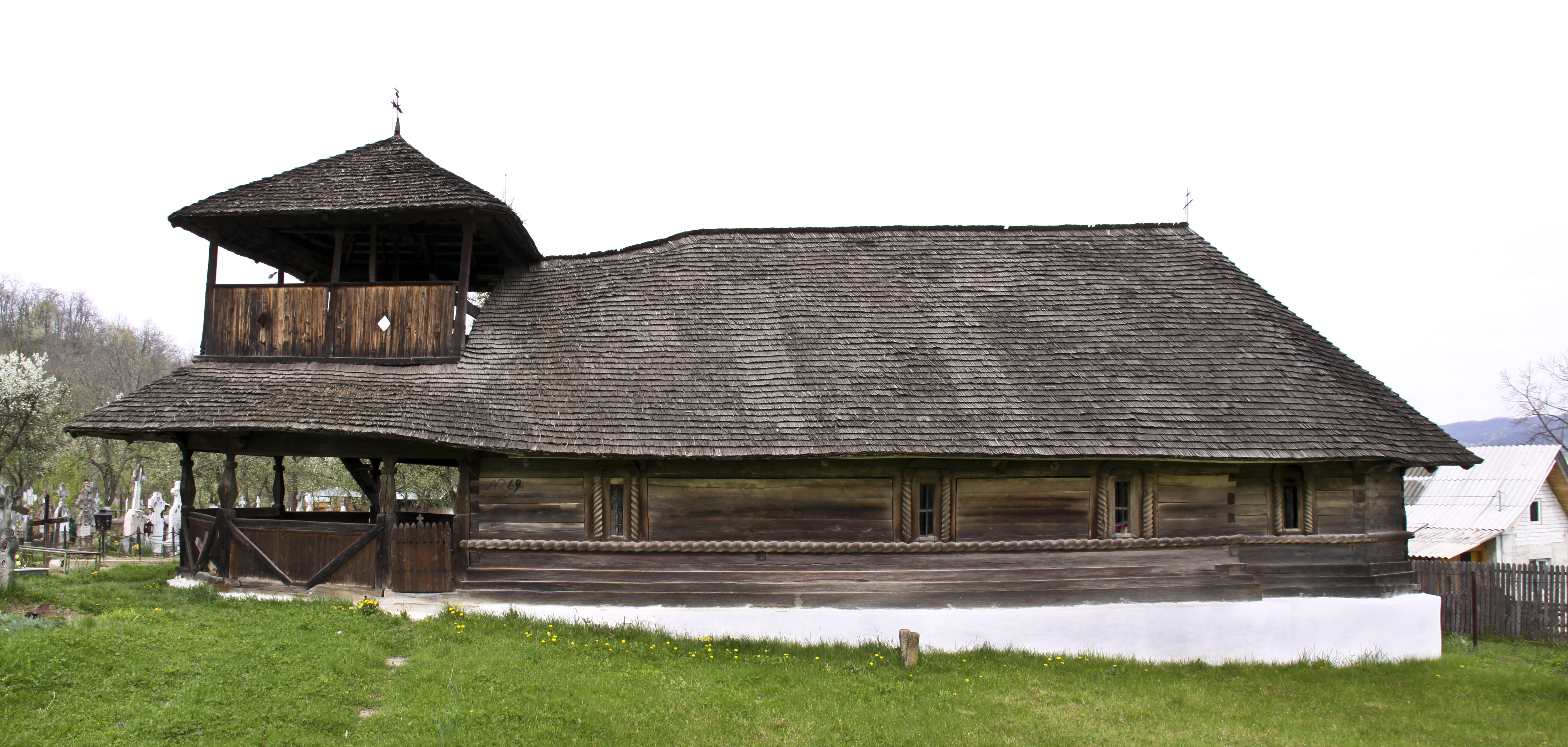 Jupâneşti, Argeş county, Romania: the wooden church, north side.